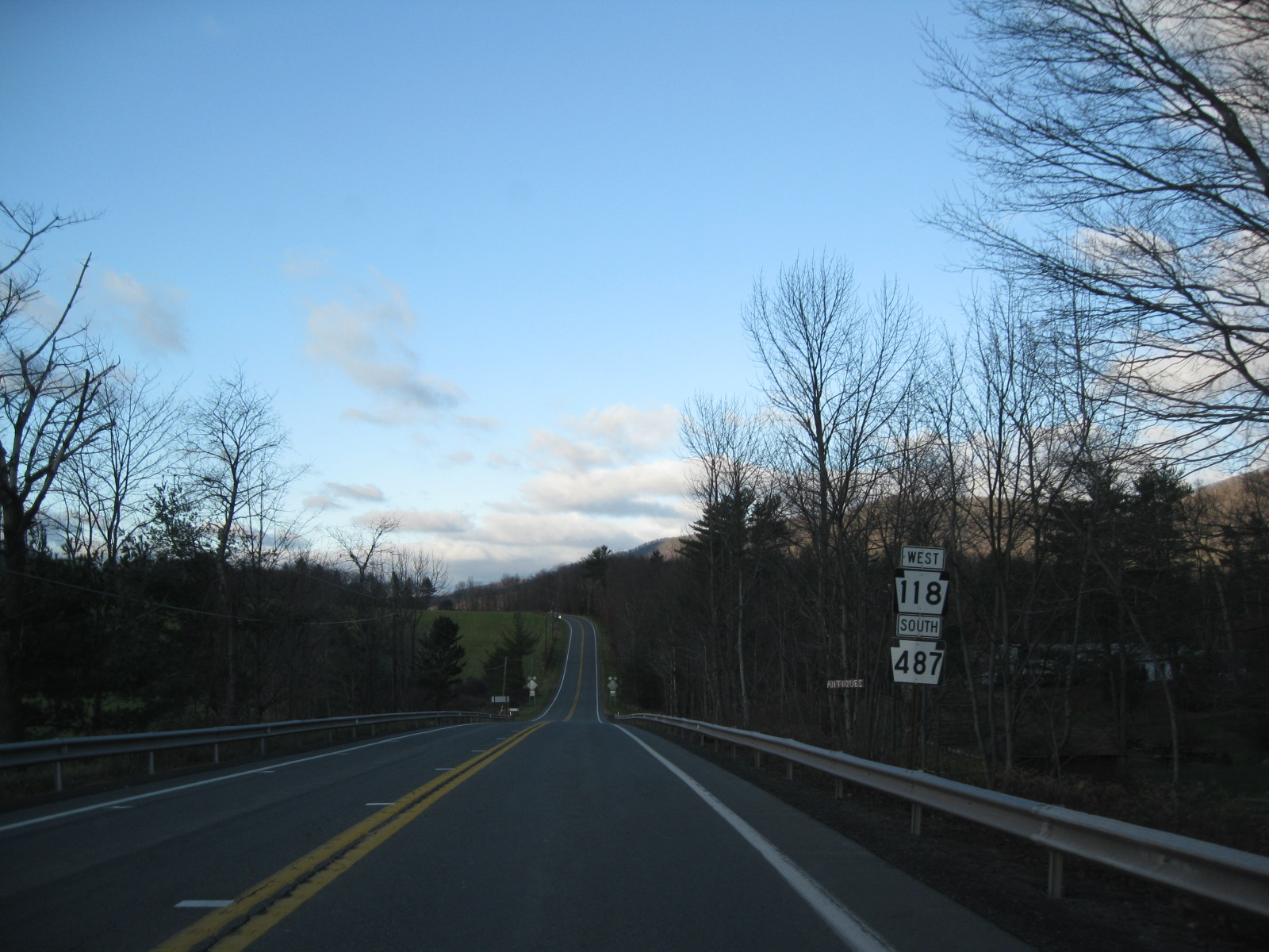 Pennsylvania State Route 118 heading along the concurrency with State Route 487 through Luzerne and Columbia Counties.